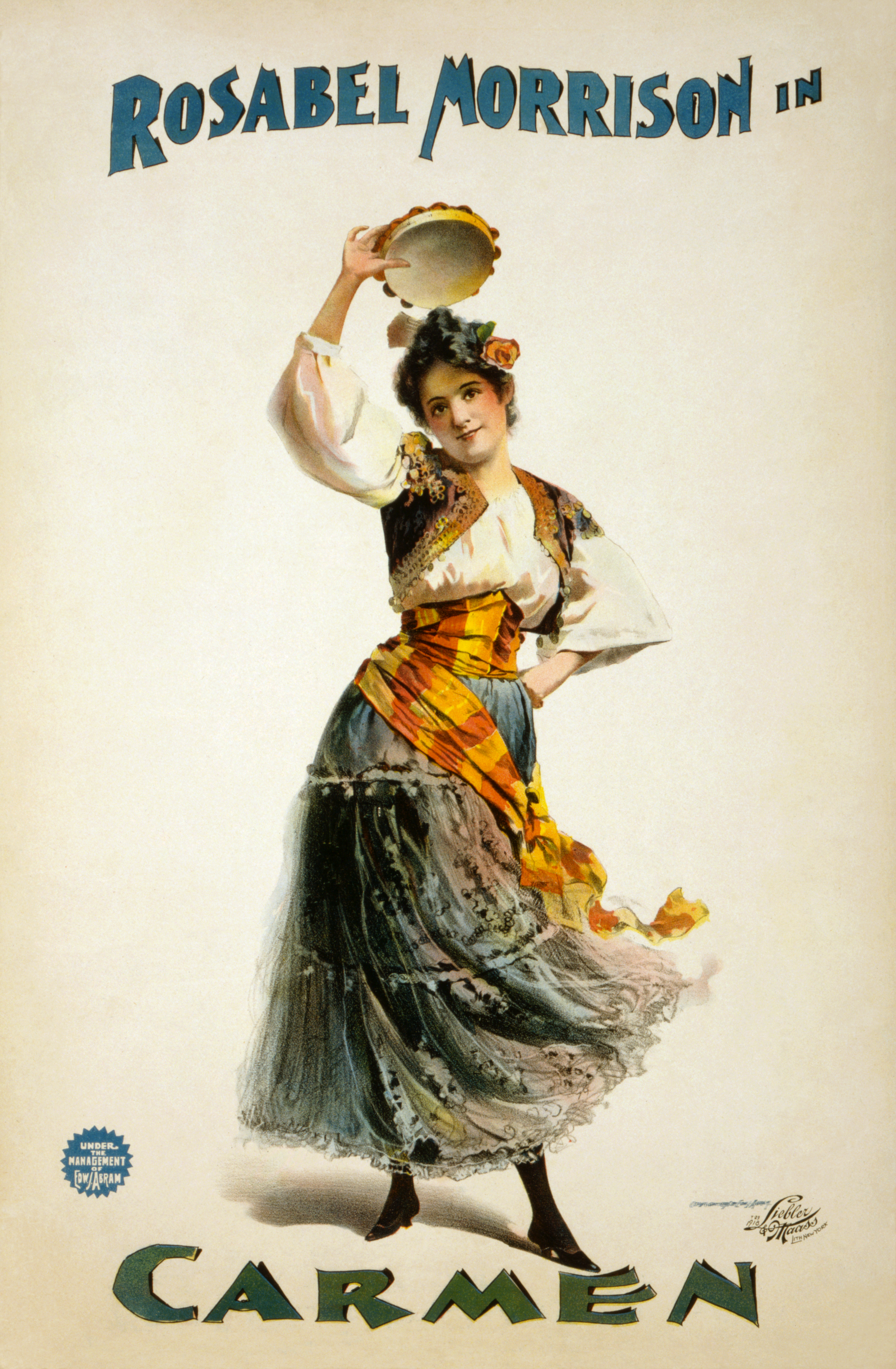 Poster for an 1896 dramatic adaptation of Carmen, starring Rosabel Morrison, and under the management of Edward J. Abram